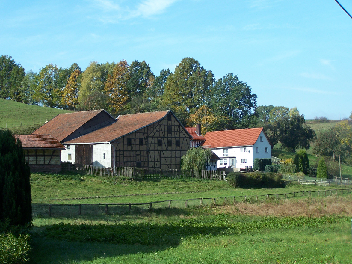 A typical court in Deubach village.